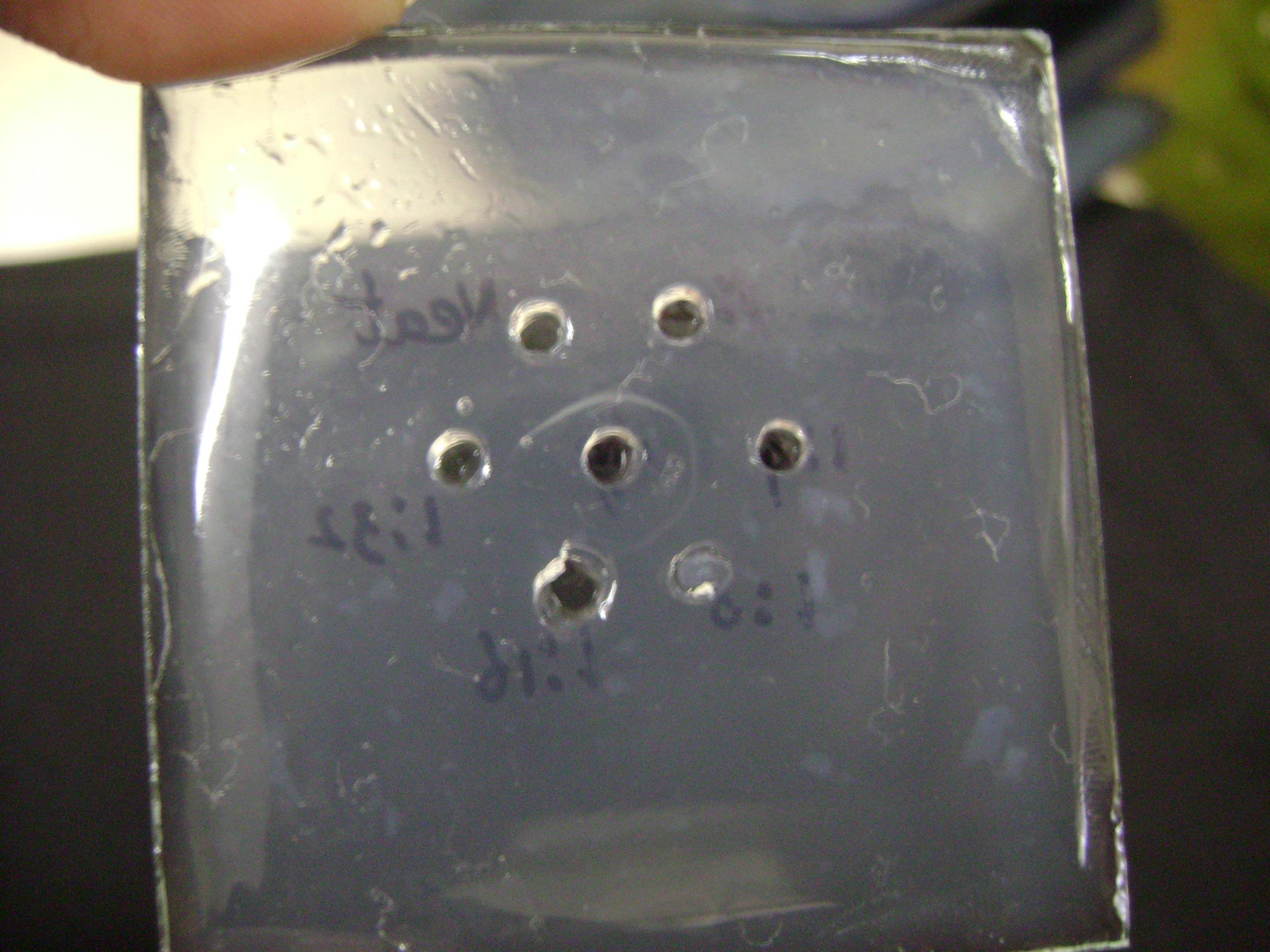 This is a self taken picture of an Ouchterlony Double Diffusion method. The central well has an antibody. The surrounding wells have decreasing concentration of the corresponding antigen, labelled Neat (1:1), 1:2, 1:4, 1:8, 1:16 and 1:32, clockwise from top. It is clear here that the line stops at 1:8, which is taken as the titre value.